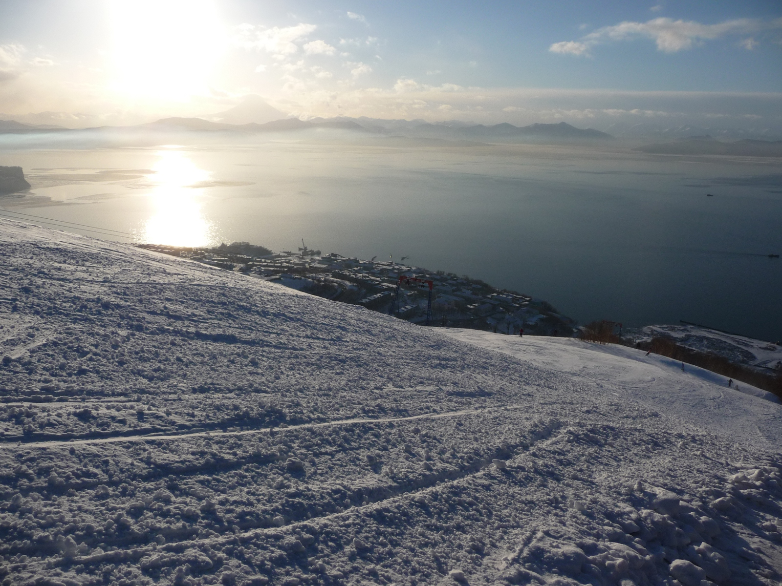 "Red Hill" ski resort. View of the Avacha bay. Вид на Авачинскую бухту со склона Красной сопки.